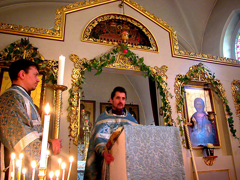 Chanting the Gospel lesson during Divine Liturgy in an Orthodox church